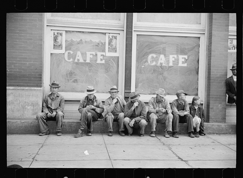 "Mountaineers "spelling" themselves in front of store, Pikeville, Tennessee." (description from source)